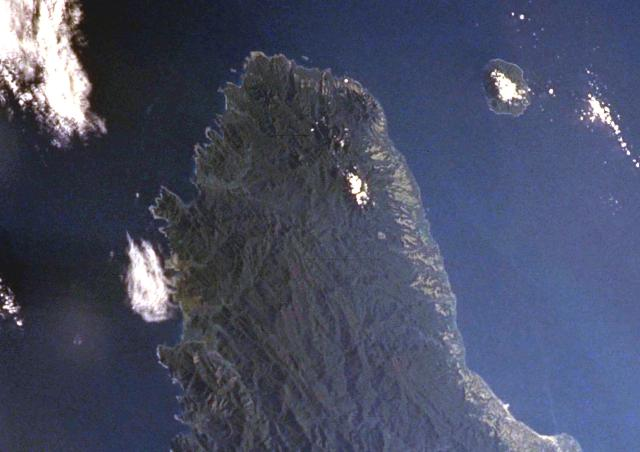 The Pliocene-to-Quaternary Gallego volcanics cover a large area of NW Guadalcanal Island along the top part of this NASA Space Shuttle image with north to the upper right. Local traditions mention a historical eruption from Mount Roundhead, but this could refer to an eruption from Savo volcano, the island at the upper right. Mount Esperance volcano rises above Cape Esperance, across the channel from Savo Island. The city of Honiara lies along the northern coast of Guadalcanal Island at the lower right.